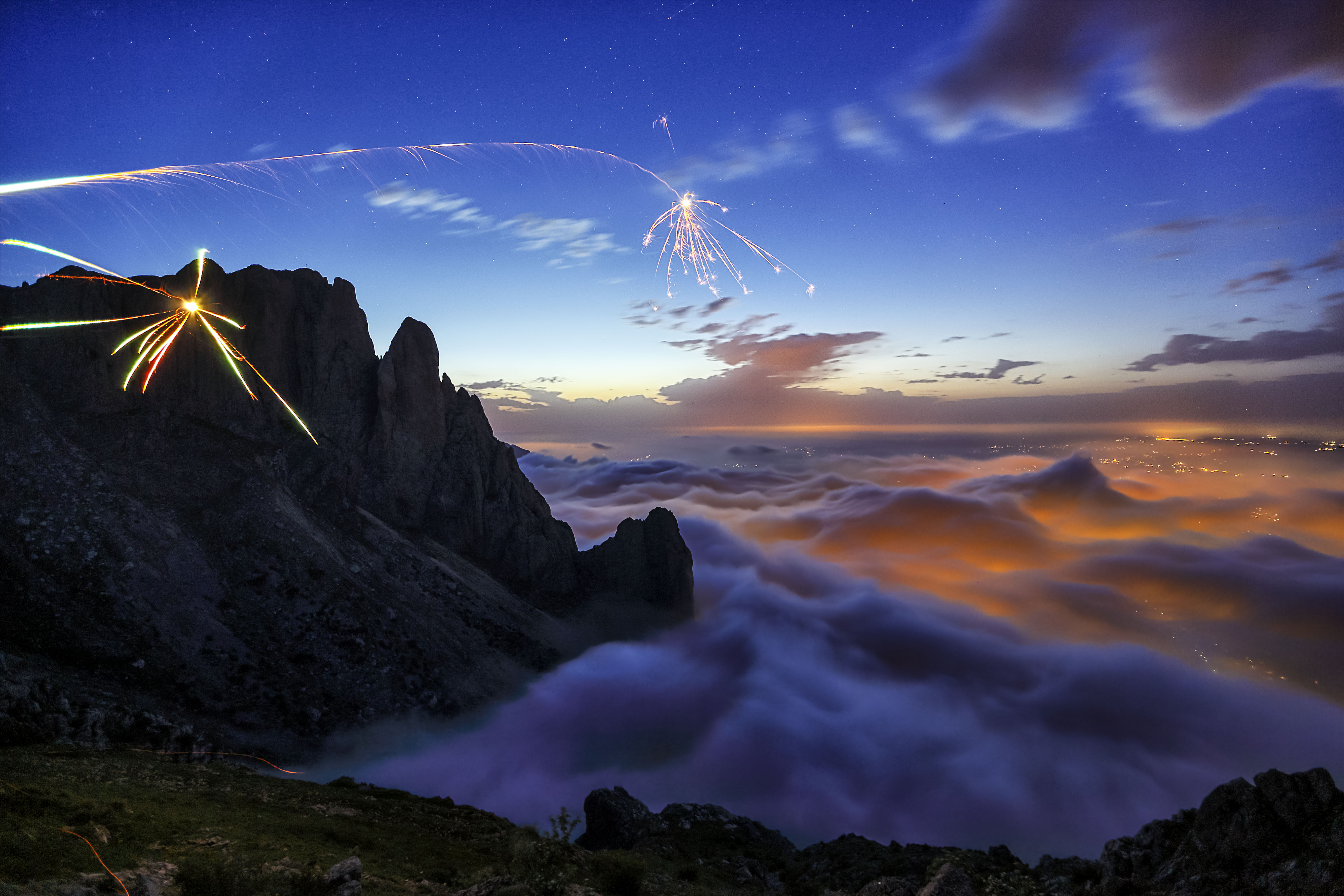 Here, it is a night view of several villages of Tizi Ouzou. Thaletat, also known as the Hand of the Jew, which culminates at 1638 meters, is one of Djurdjuran summits in Kabylia.